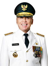 Acting Governor of West Java Moch. Irawan